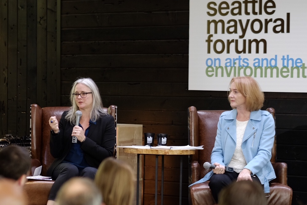 Seattle mayoral candidate Cary Moon at KEXP